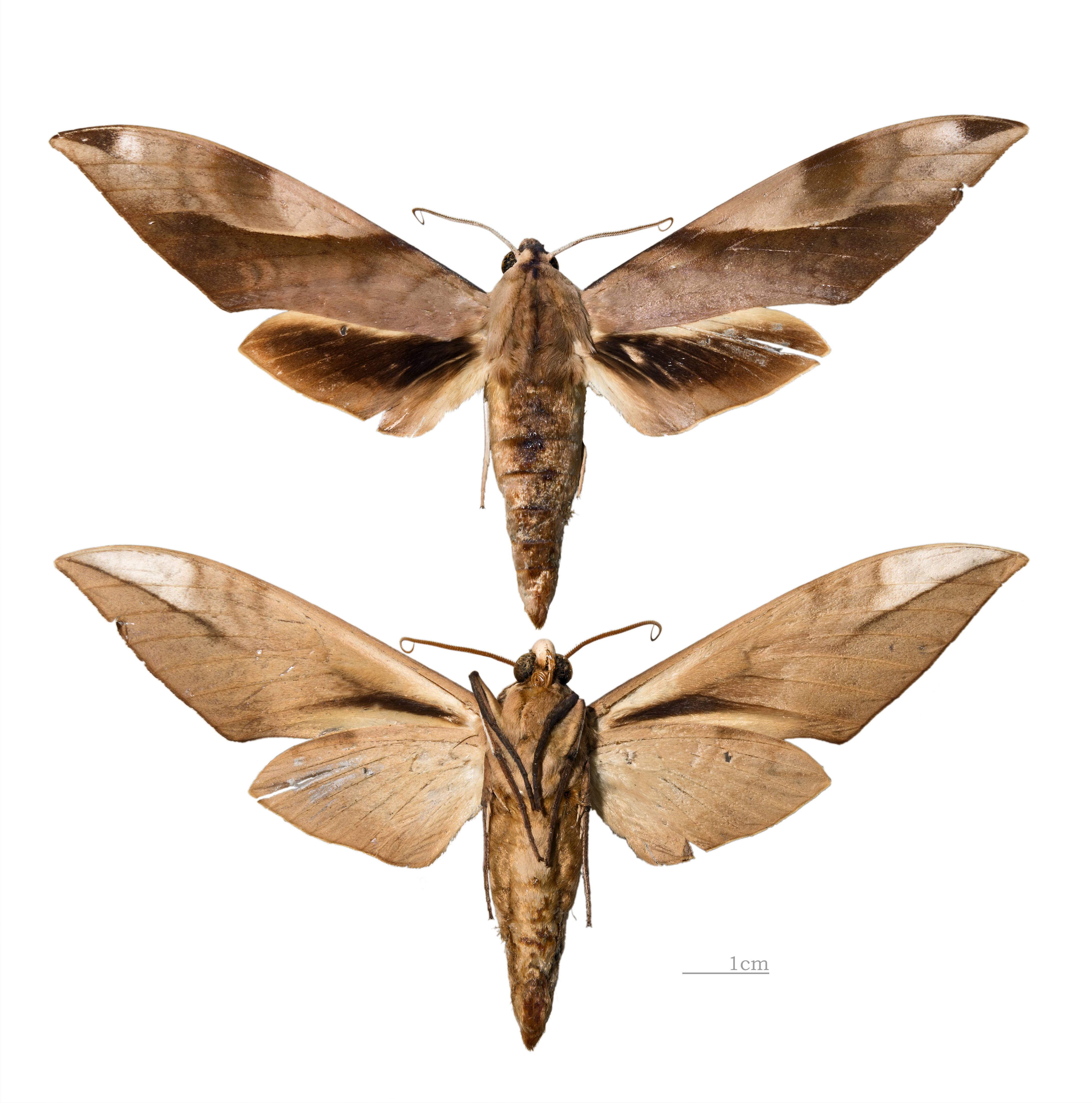 Clanis schwartzi - Two views of same specimen Paratype